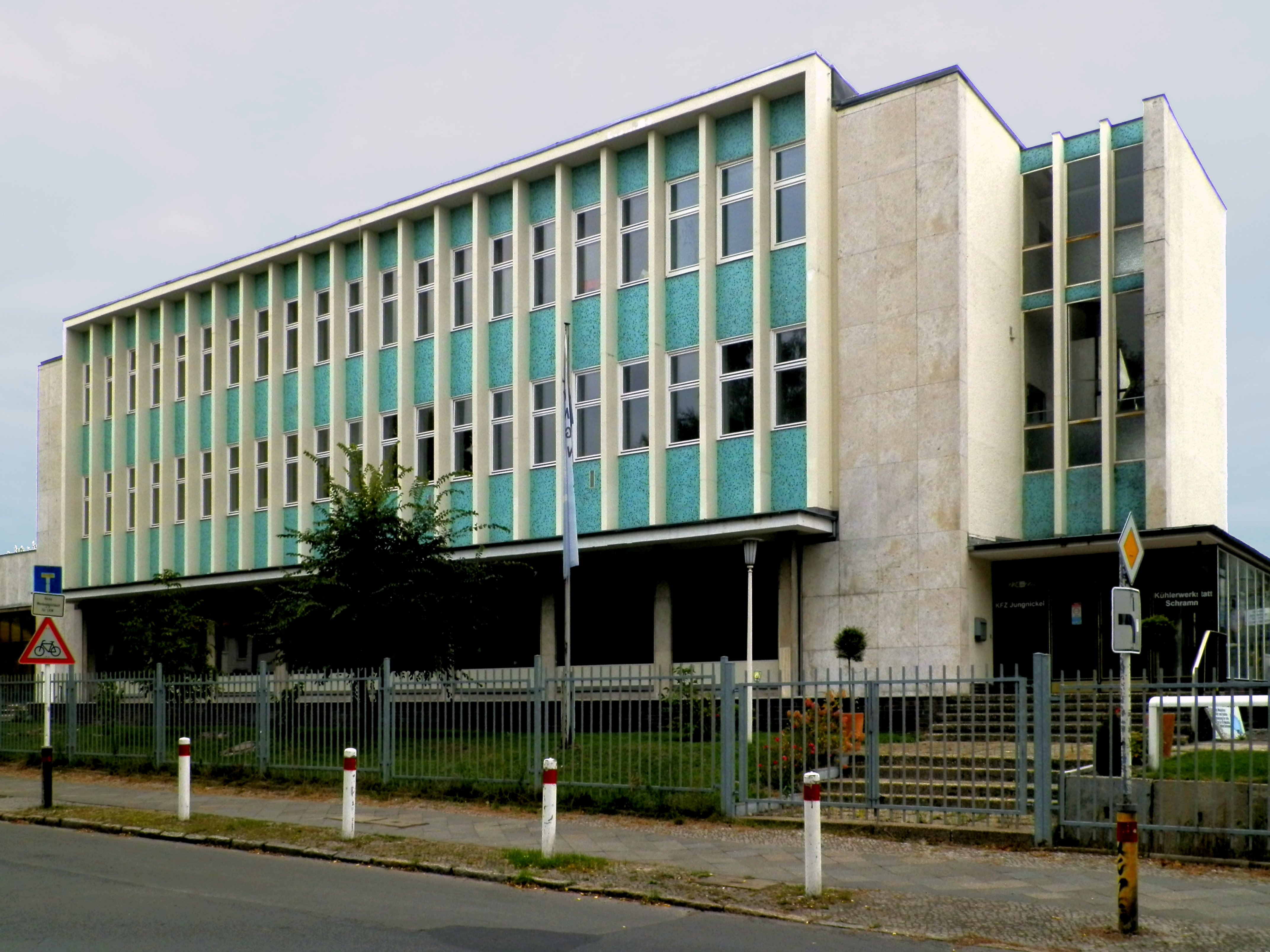 Former Coca-Cola Headquarter in West-Berlin, Hildburghauser Straße 224.